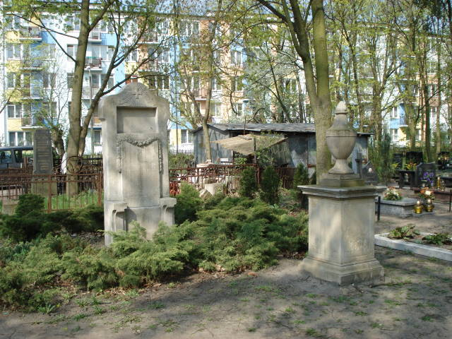 St. George Cemetery in Toruń, gravestones of 19th century